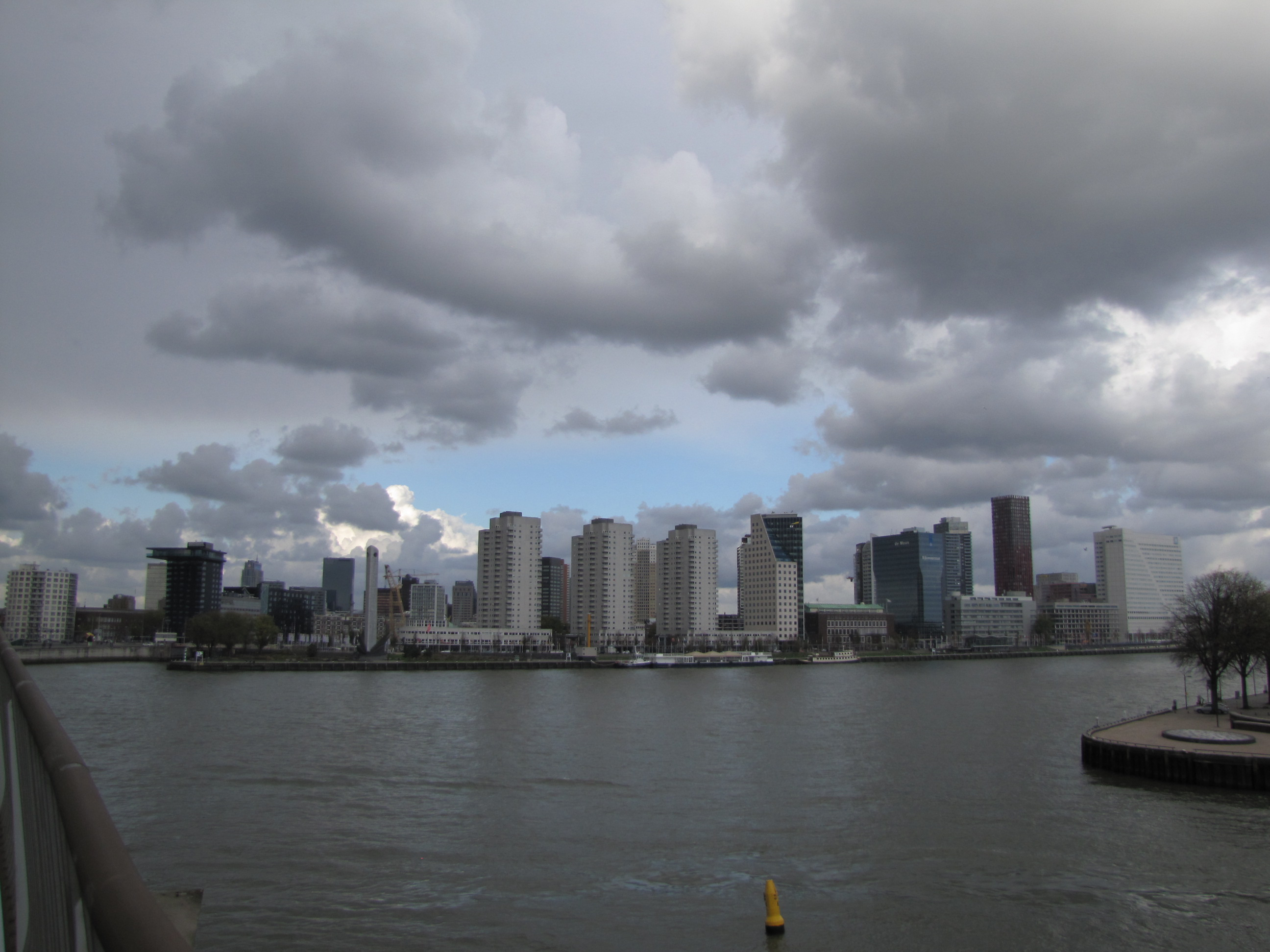 Pictures of Rotterdam on the 5th november 2017.